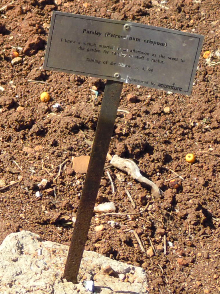 Johannesburg botanical gardens Shakespeare garden01